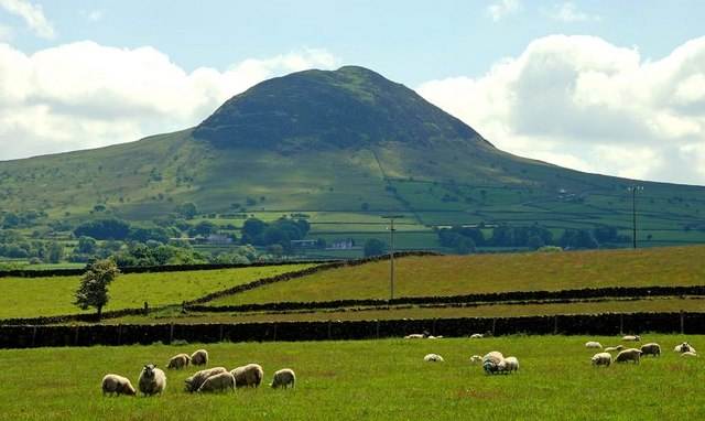 Slemish (8). See 624734. Slemish seen from Buckna.